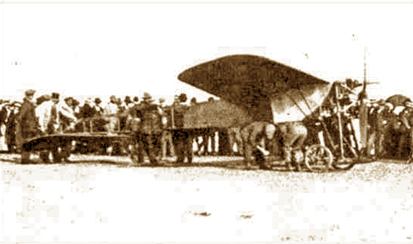 Slavorosoff Arrives in Rome